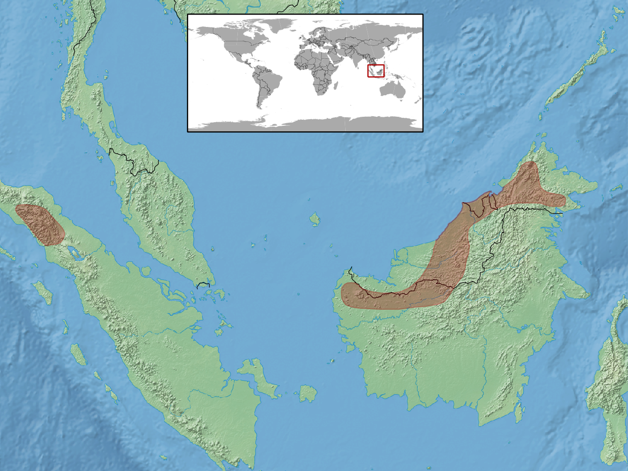 geographic distribution of Sphenomorphus cyanolaemus